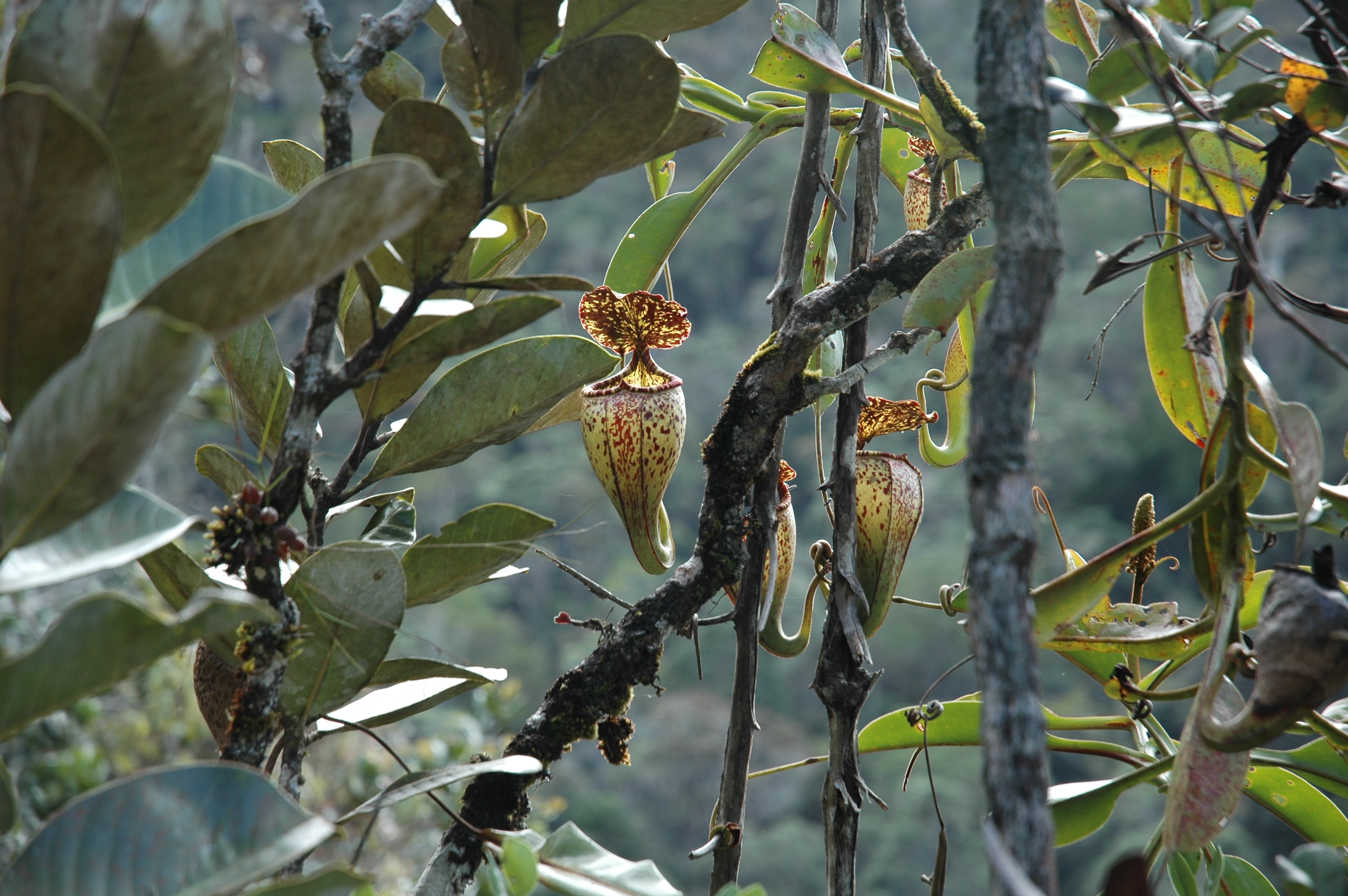 Nepenthes burbidgeae upper pitcher Pig Hill Kinabalu by Jeremiah Harris